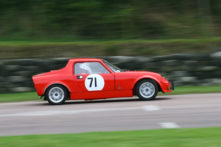 Honda Powered GTM Coupe at speed